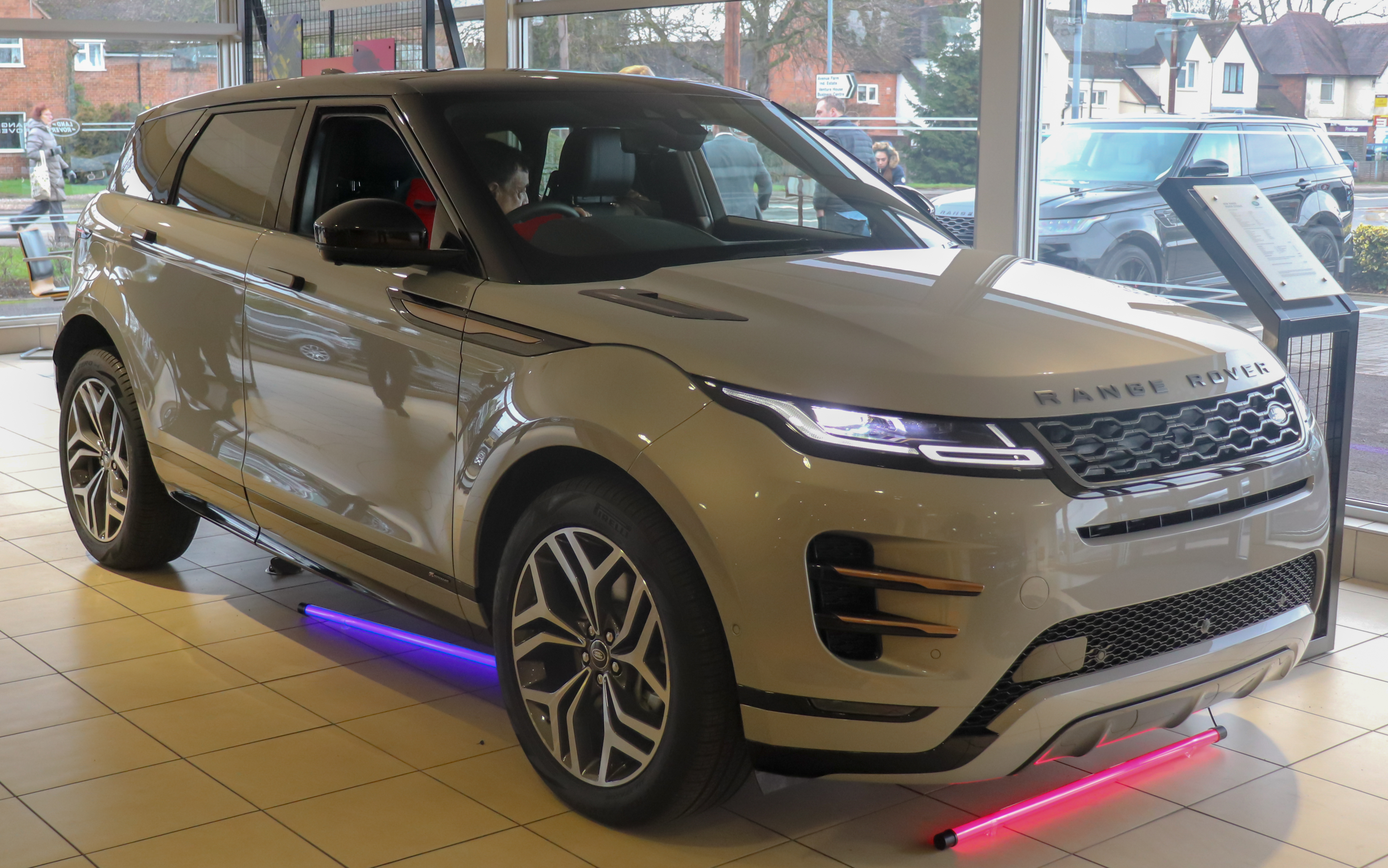 2019 Land Rover Range Rover Evoque D180 SE Front Taken in Stratford-upon-Avon